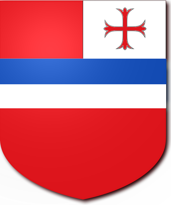 Arimondi shield second variant